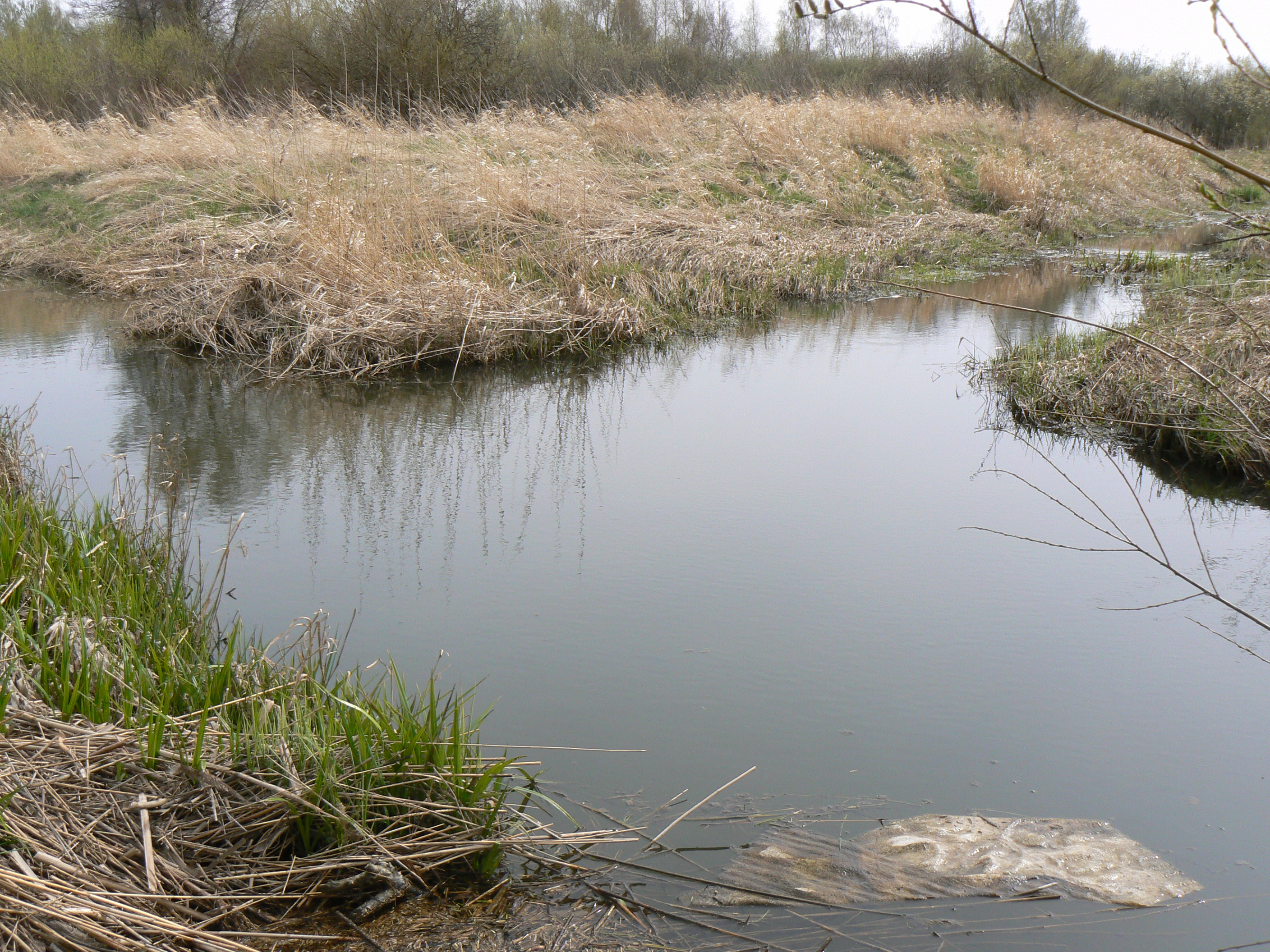 Confluence Žiogupis(right)/Šakšinis(left)